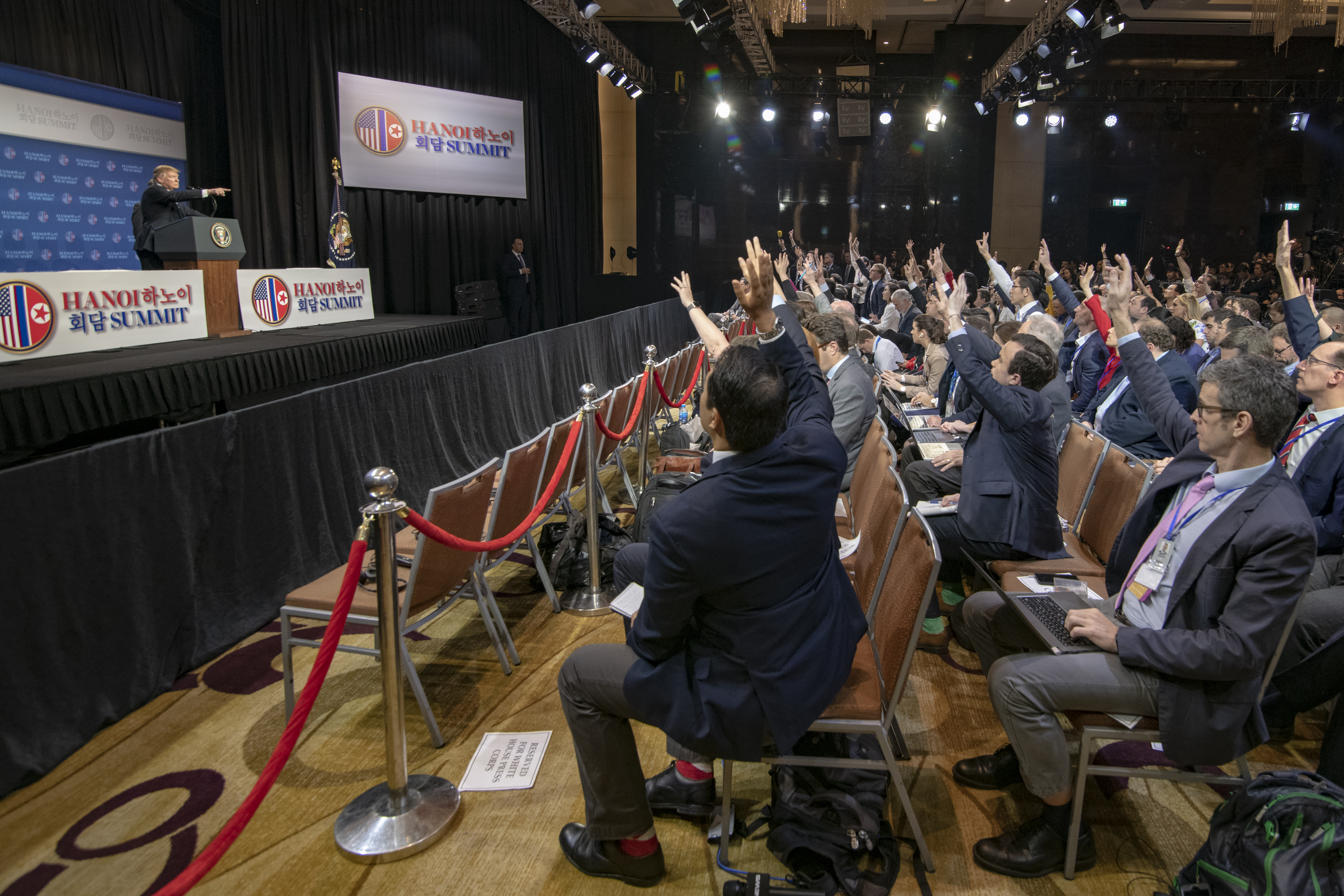 President Donald J. Trump and Secretary of State Michael R. Pompeo participate in a press conference in Hanoi, Vietnam, on February 28, 2019. [State Department photo by Ron Przysucha/ Public Domain]